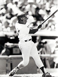 Los Angeles Dodgers' third baseman Bill Madlock hitting a pitch during a Major League Baseball game in 1986.